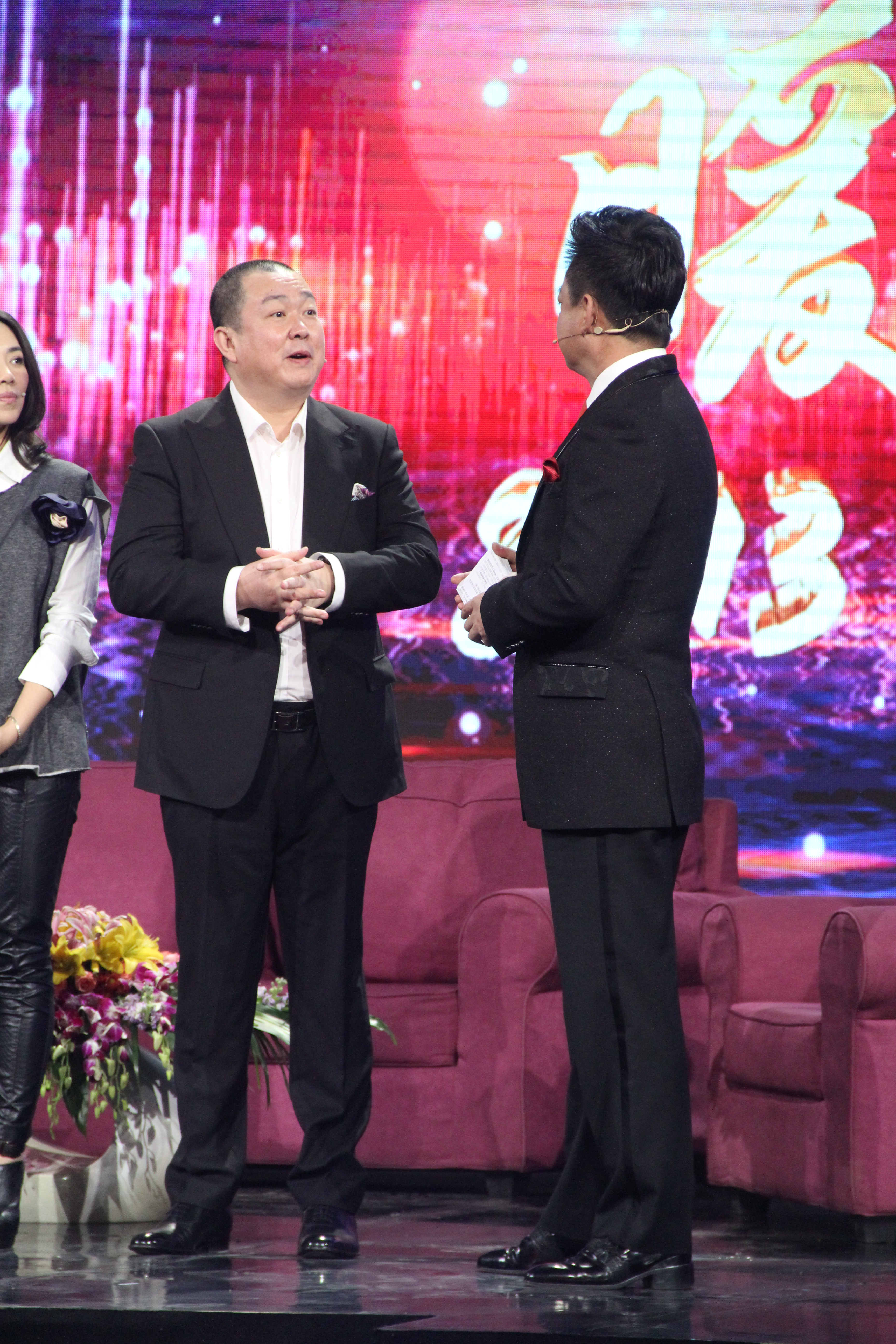 This photo was taken during the filming of Chinese talk show Art Life. In this episode, cast and director of popular TV drama We Let Married were invited.中文（中国大陆）: 这张图片于《艺术人生》的片场拍摄，这集邀请了《咱们结婚吧》的演员和导演。